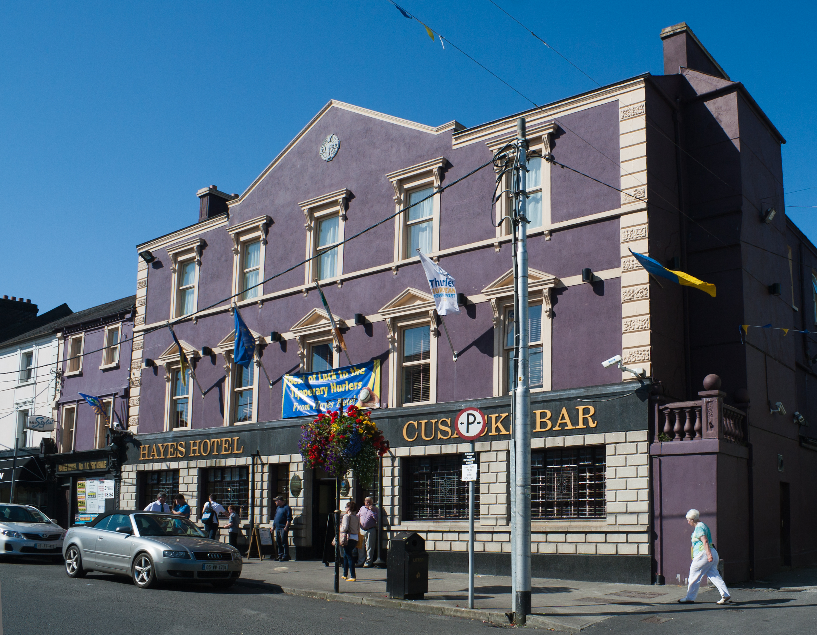 Hayes Hotel at the northern side of Liberty Square, built c. 1840. Reg. no. 22312048 in the National Inventory of Architectural Heritage.